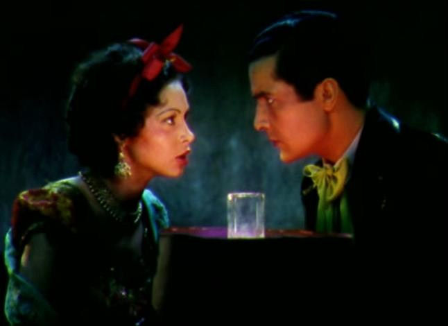 Steffi Duna and Don Alvarado in the American short film La Cucaracha (1934) - cropped screenshot